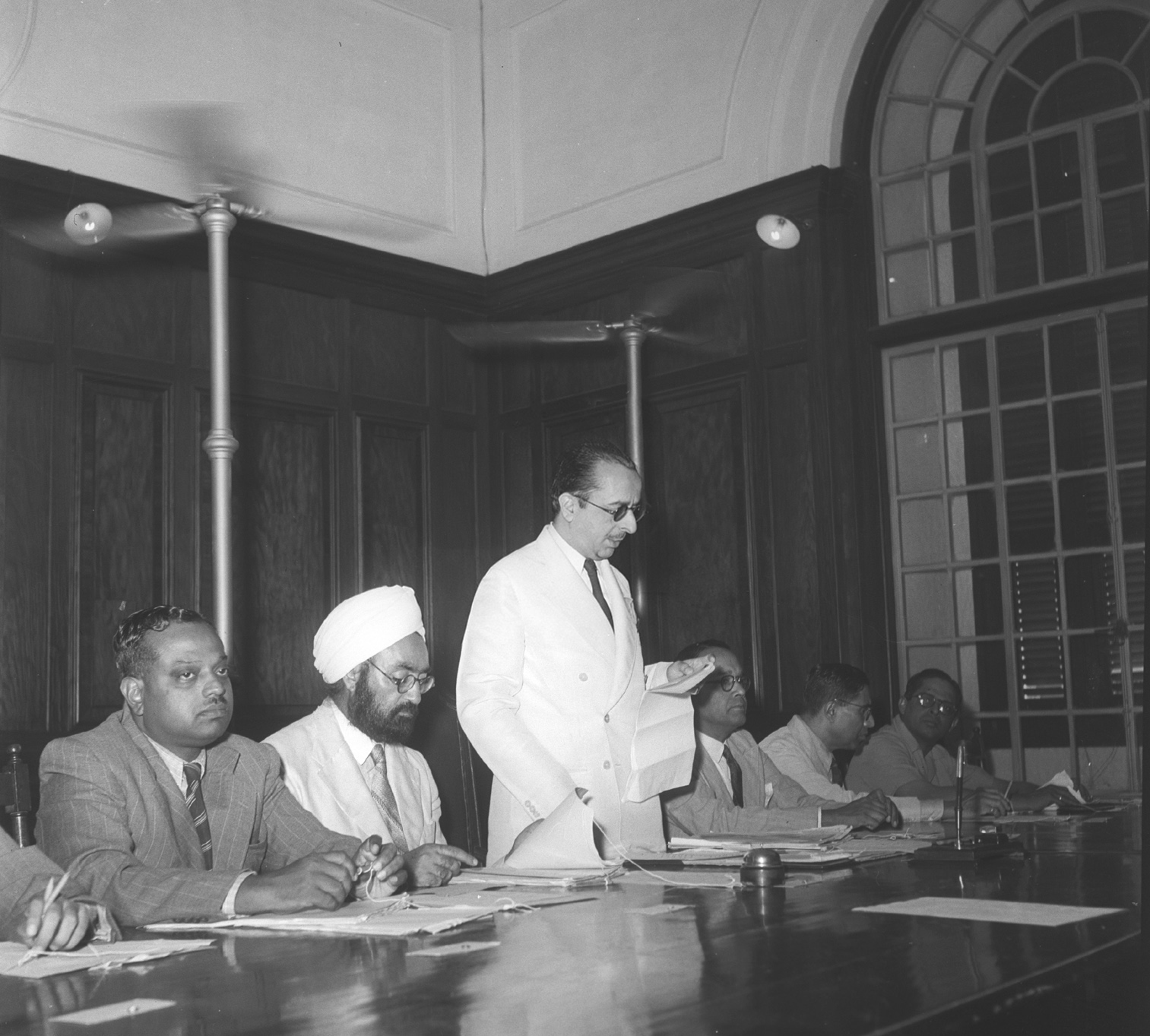 C. H. Bhabha, the then Commerce Minister in the Government of India, inaugurating the meeting of the Indian Oilseeds Committee in New Delhi on October 16,1947. ( L to R): K. C. Chetty, the then Secretary of the Oilseeds Committee; Sir Datar Singh, the then Vice-Chairman of the Indian Council of Agricultural Research; Bhabha; S.M. Dark, the then Secretary in the Ministry of Agriculture of the Government of India; S. Basu, the then Joint Secretary in the Ministry of Agriculture, Govt. of India and K. W. P. Marar, the then Joint Secretary in the Ministry of Agriculture.